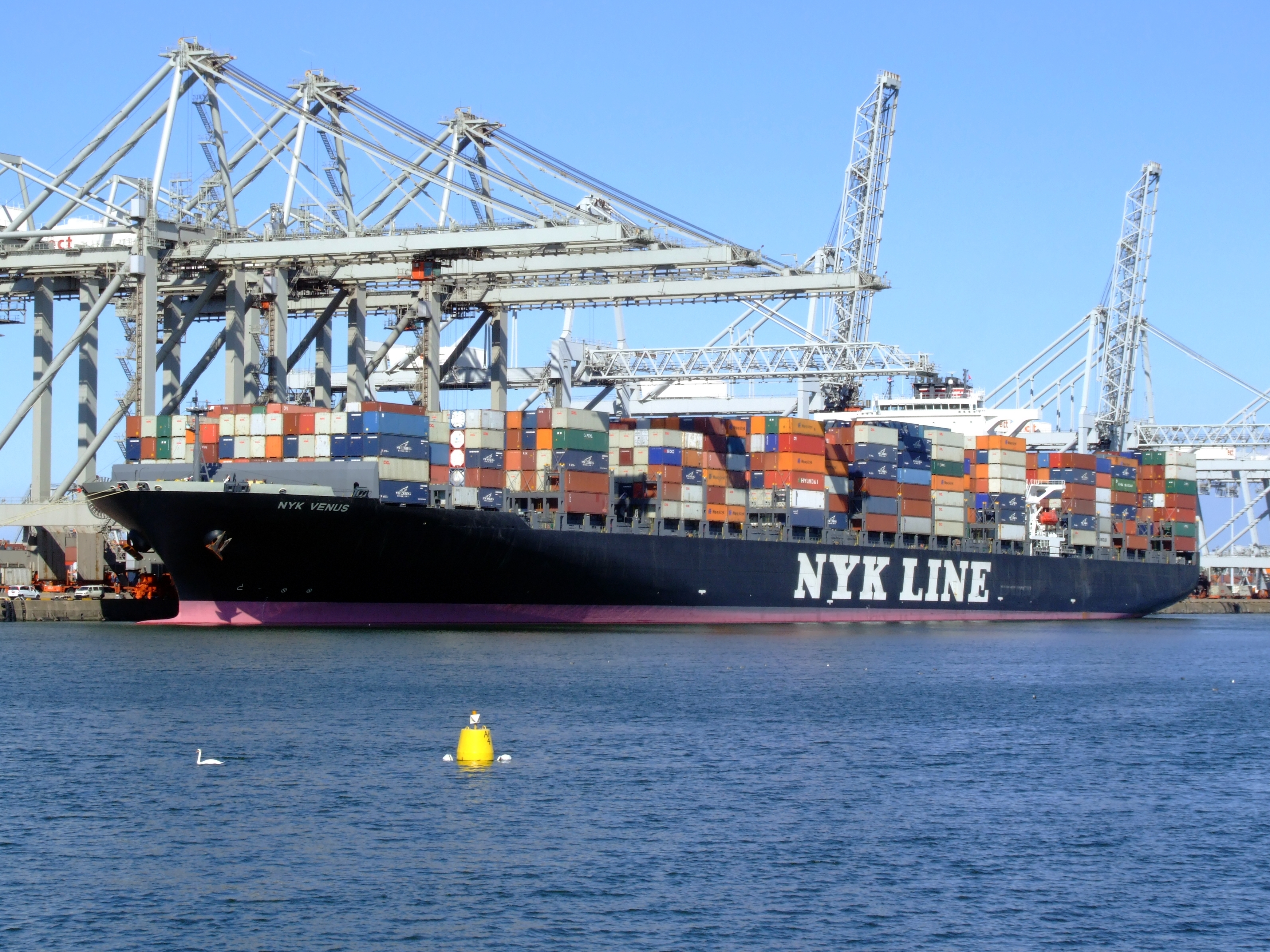 Nyk Venus, at the Amazone harbour, Port of Rotterdam, Holland 29-Aug-2007.